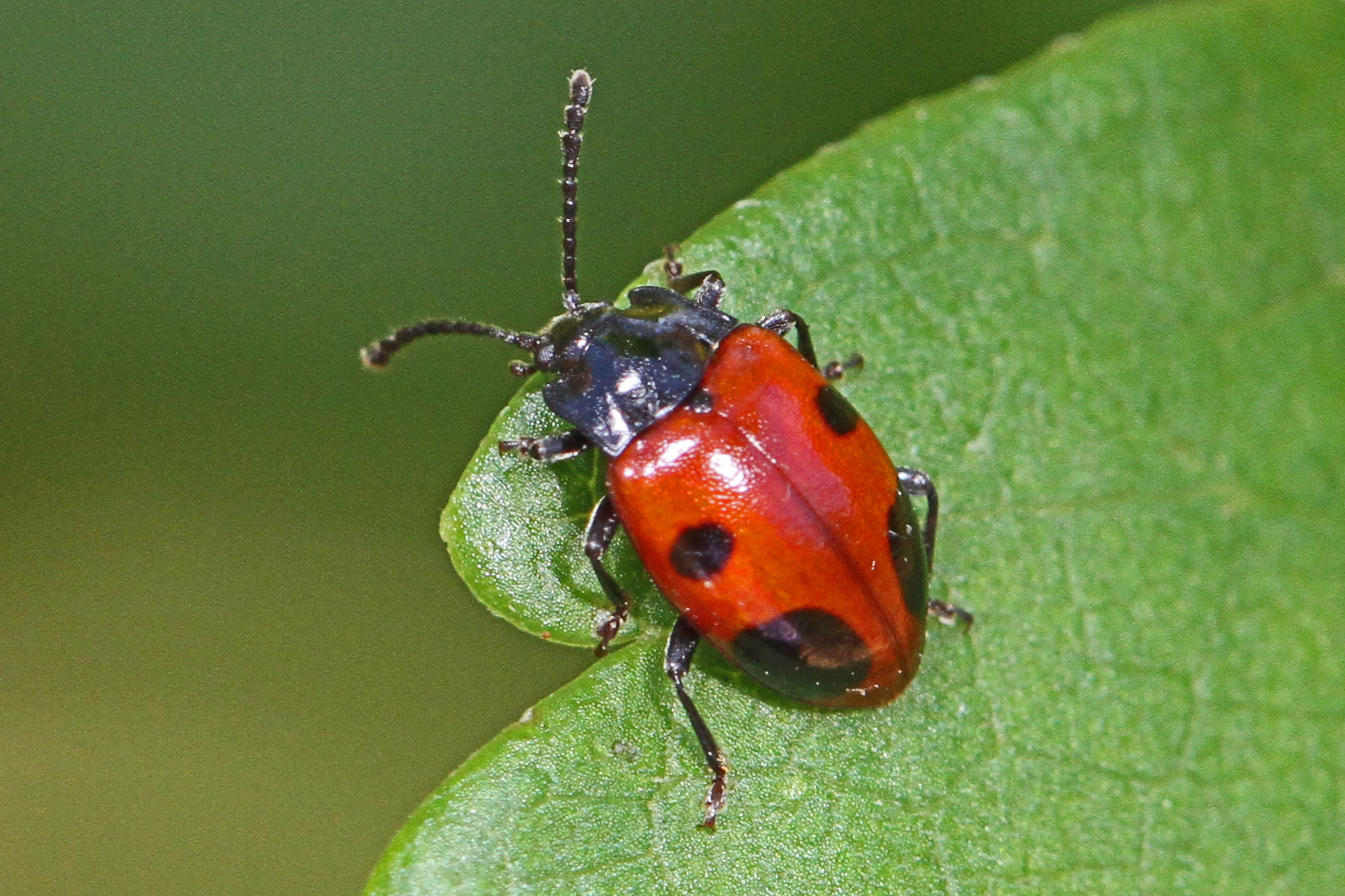 Handsome Fungus Beetlee - Endomychus biguttatus, Meadowwood SRMA, Mason Neck, Virginia. This isn't just any Fungus Beetle, it's the HANDSOME Fungus Beetle. It is attractive.